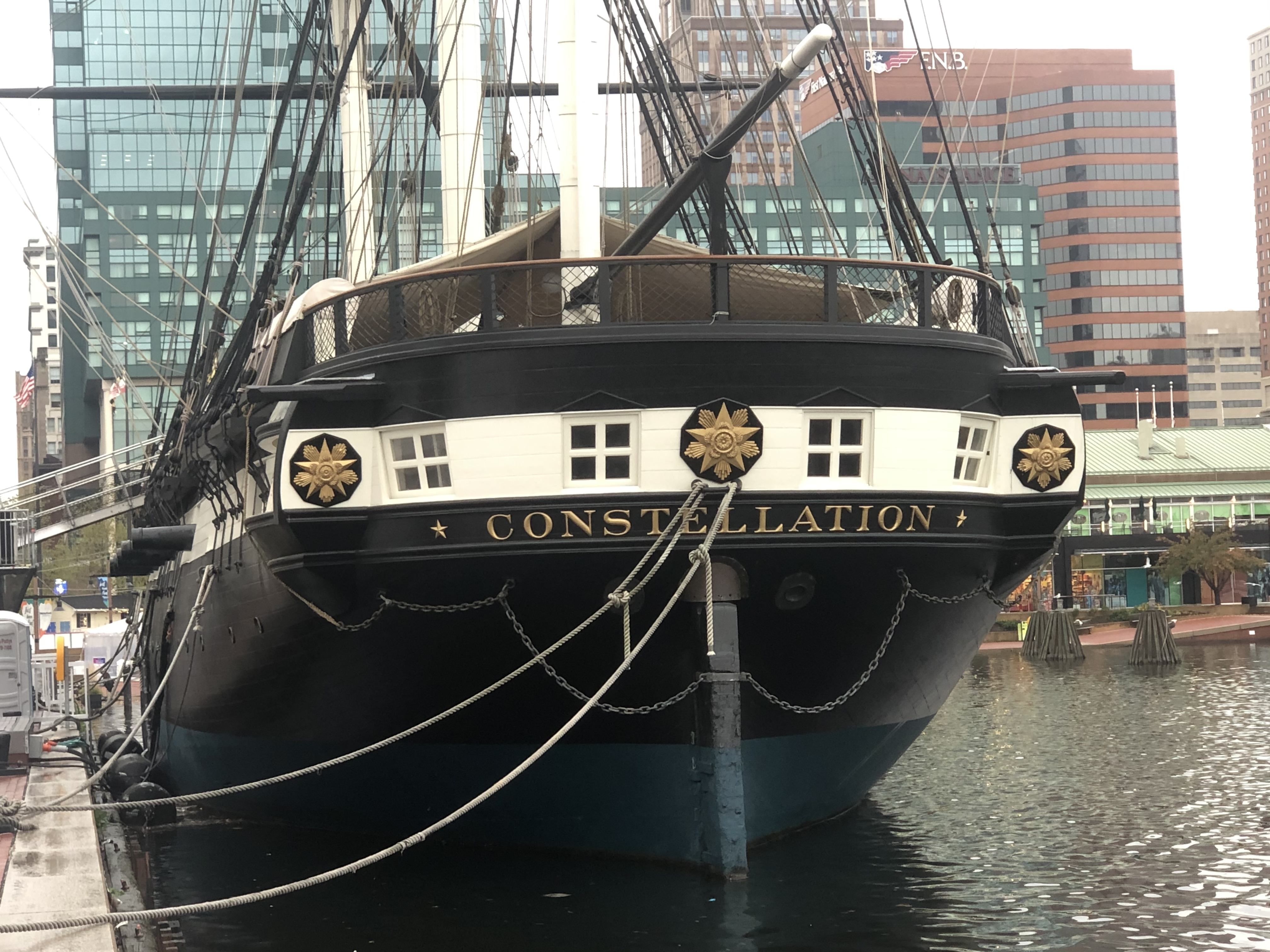 USS Constellation (1854) 1n 2019